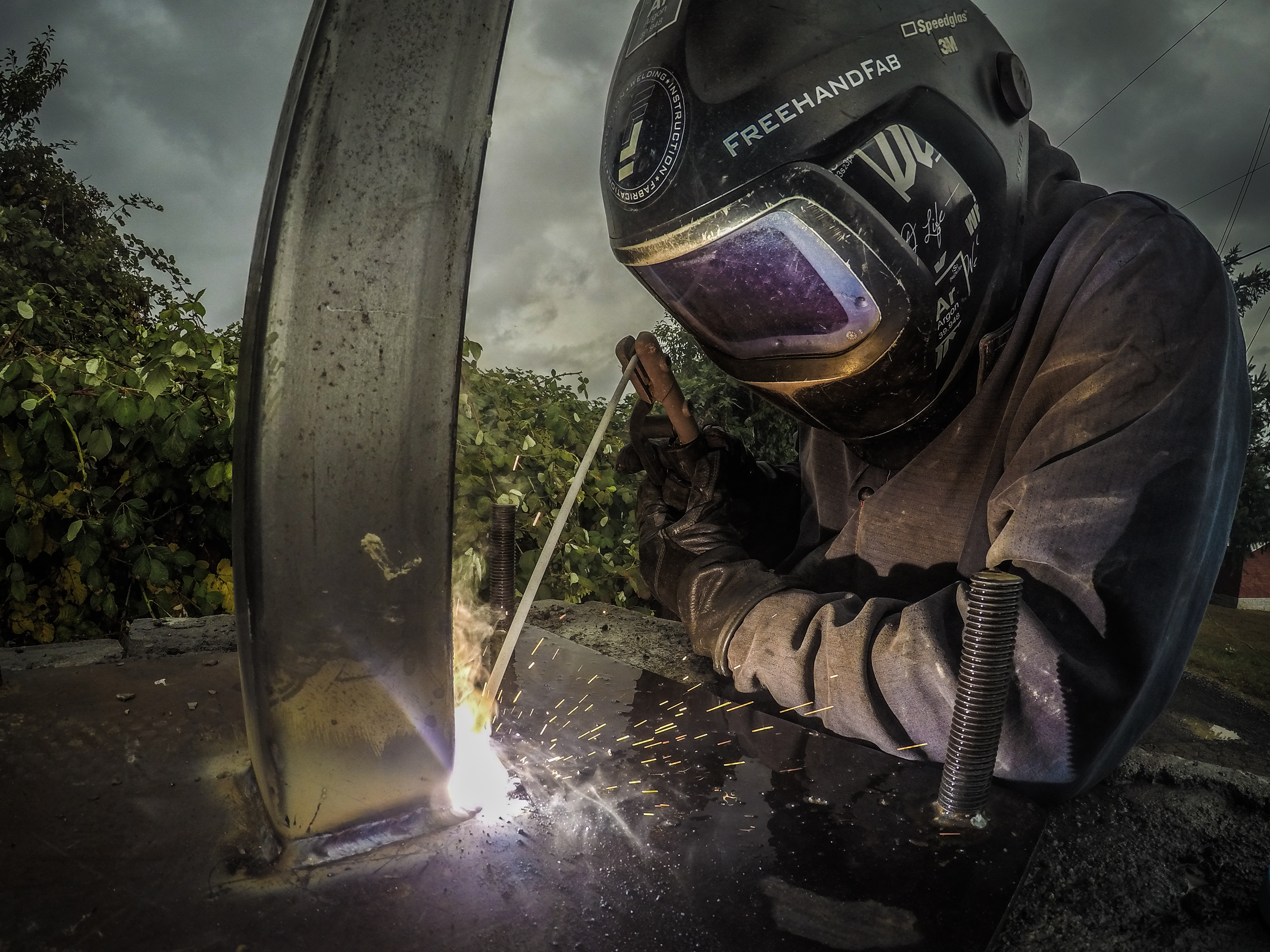 SMAW Lincoln Excalibur 7018 1/8""